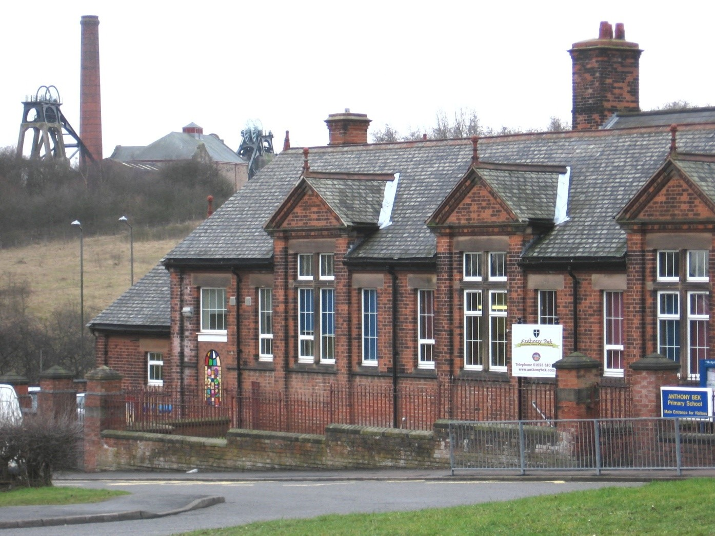 Anthony Bek Primary School, Pleasley, with Pleasley Colliery in the background.